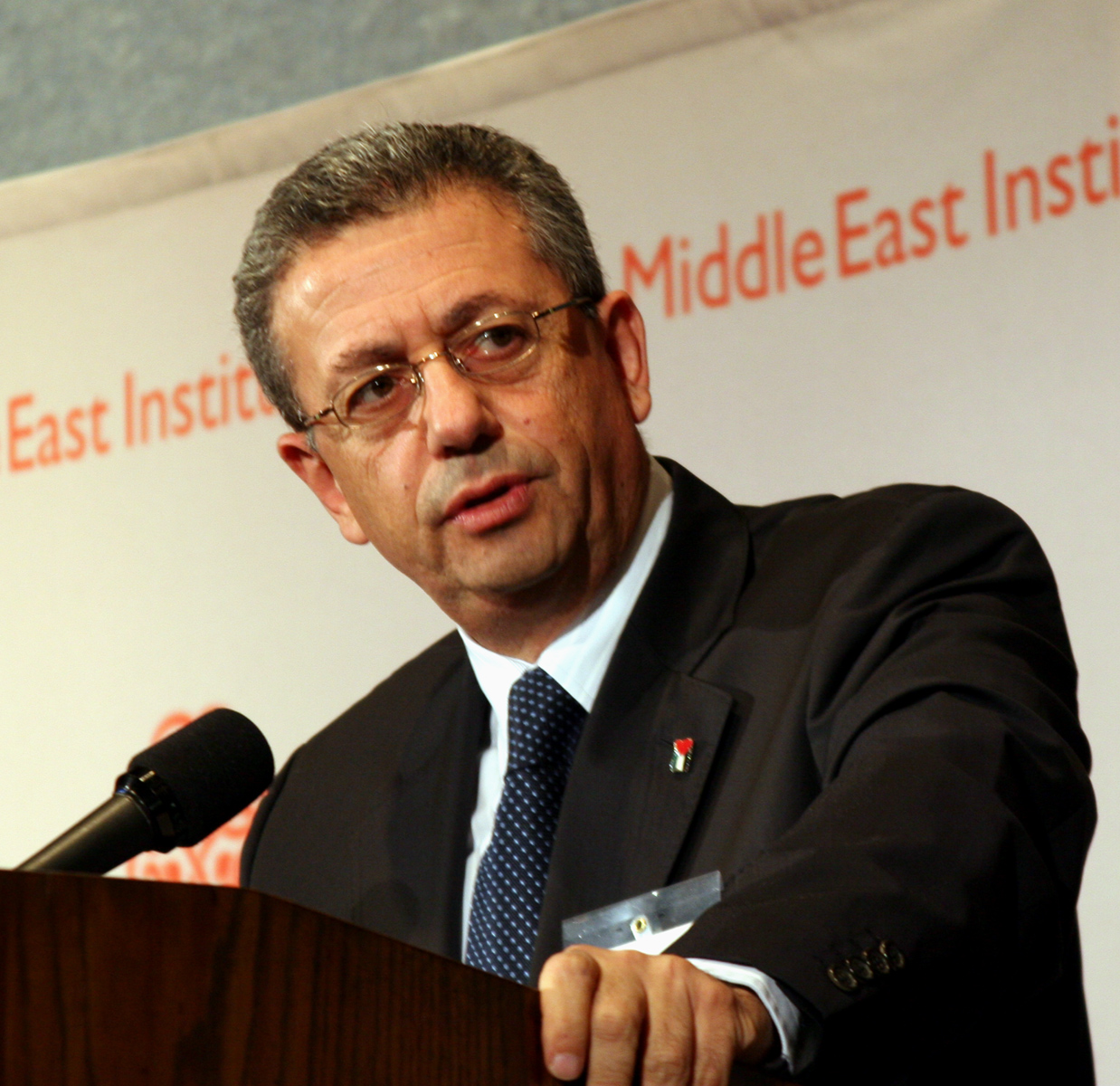 Mustafa Barghouthi